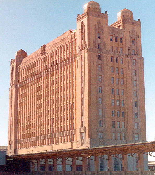 Texas & Pacific Railroad Station and Office Building, as viewed from the railroad tracks. Fort Worth, Texas. October 1993. Source: Gyrofrog